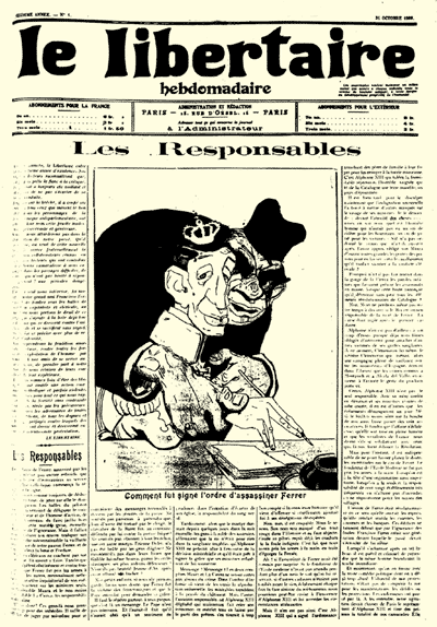 Cover of the French newspaper Le Libertaire (1895-1914) alluding to the execution of the Spanish anarchist pedagogue Francisco Ferrer. It includes a caricature of King Alfonso XIII, handled by a figure dressed in black, signing the order of his execution by firing squad.